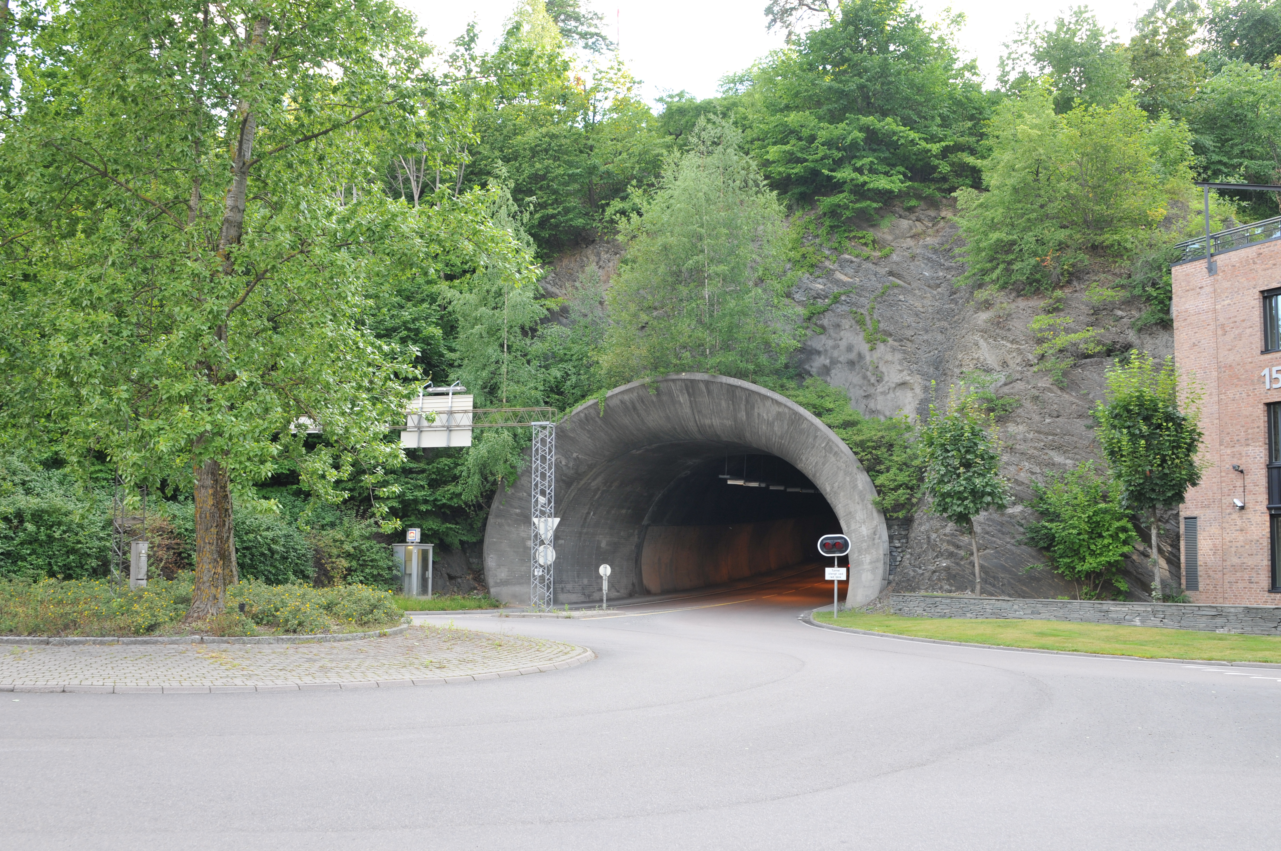 Strandveitunellen from Lysaker brygge side